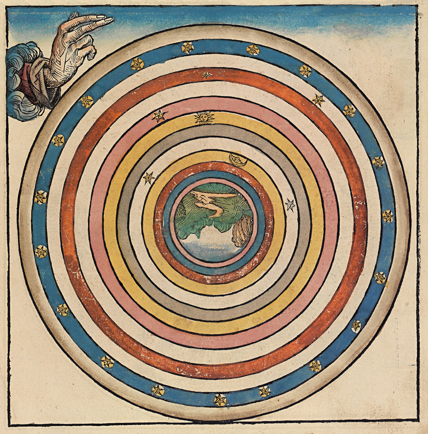 This is a part of a scan of an historical document: Title: Schedelsche Weltchronik or Nuremberg Chronicle